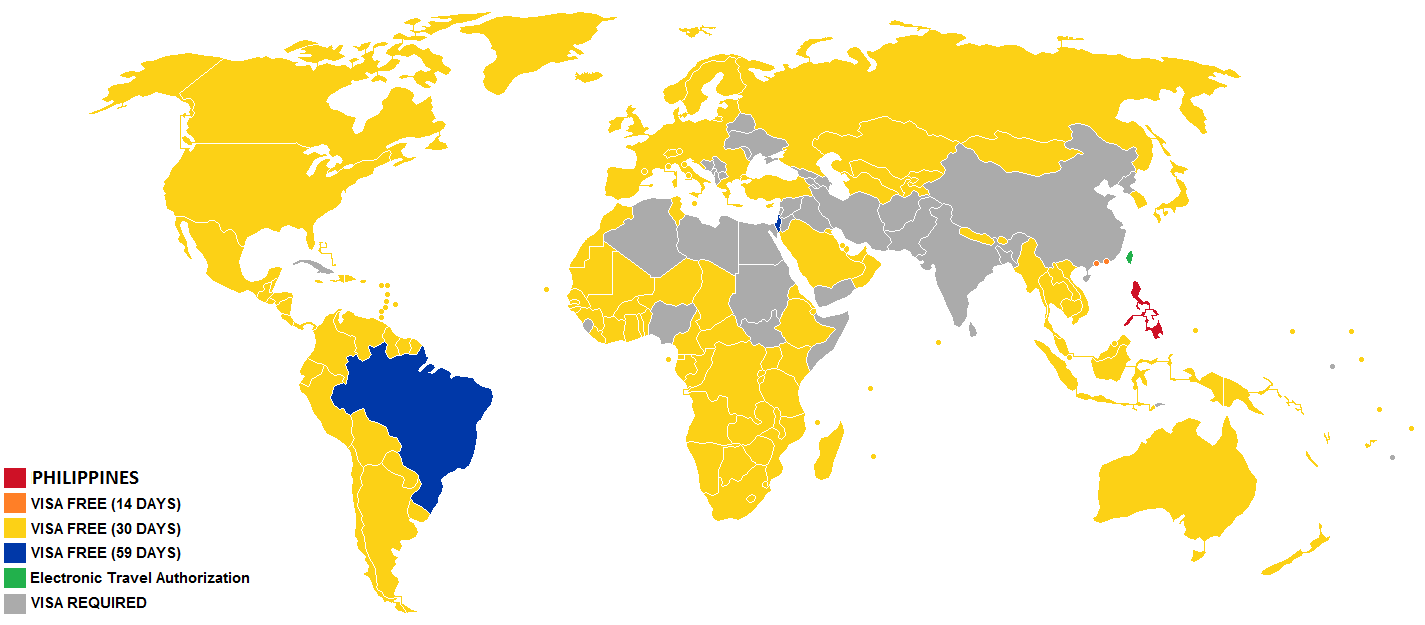 Visa policy of the Philippines Philippines Visa-free (59 days) Visa-free (30 days) Visa-free (14 days) Electronic Travel Authorization Visa required